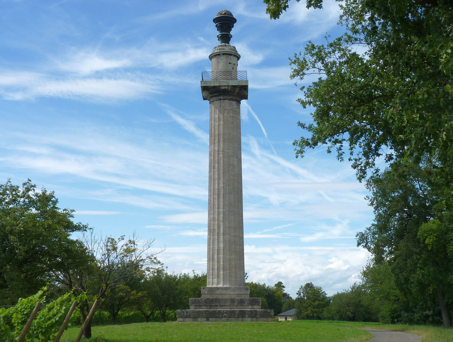 Pillar of the (first bavarian) constitution, Volkach-Gaibach, Lower Franconia, Bavaria, Germany